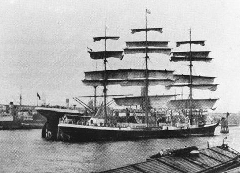 Oldenburg (ex-Laënnec), later Suomen Joutsen. Original caption: "Den franskbyggede fuldrigger OLDENBURG ex LAENNEC var tysk lastforende skoleskib i trediverne, men nu en finsk skoleskib SUOMEN JOUTSEN". From the maritime museum of Troense.